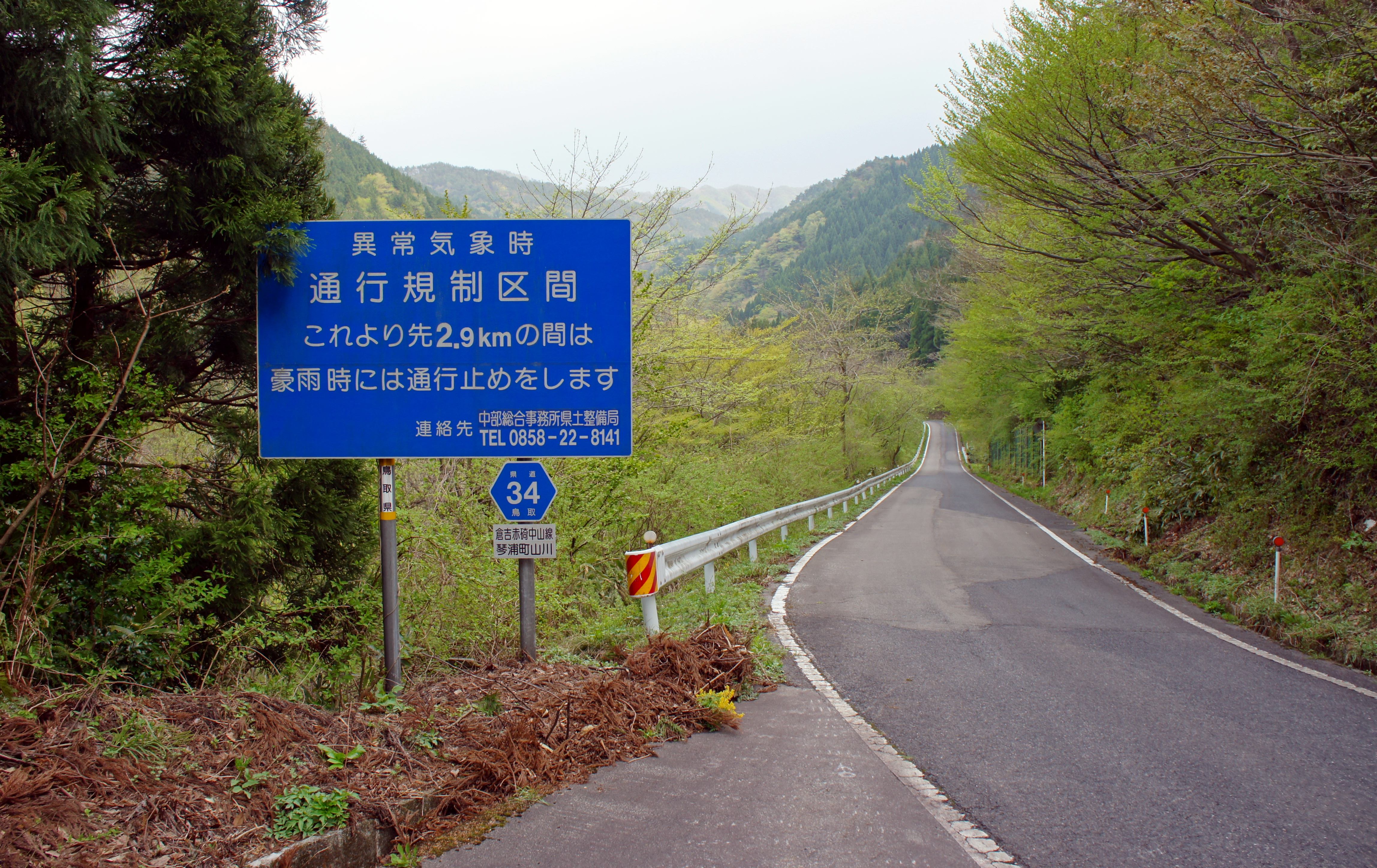 Tottori Prefectural Road 34 (Photo taken at Kotoura, Tottori Prefecture, Japan)